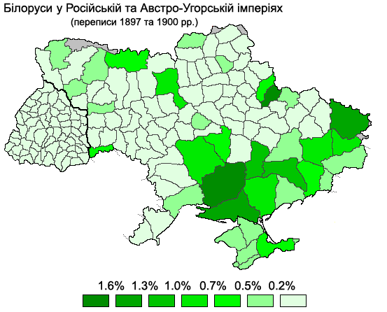 Belarusians in ukrainian parts of Russian and Austro-Hungarian empires, 1897 and 1900 censuses